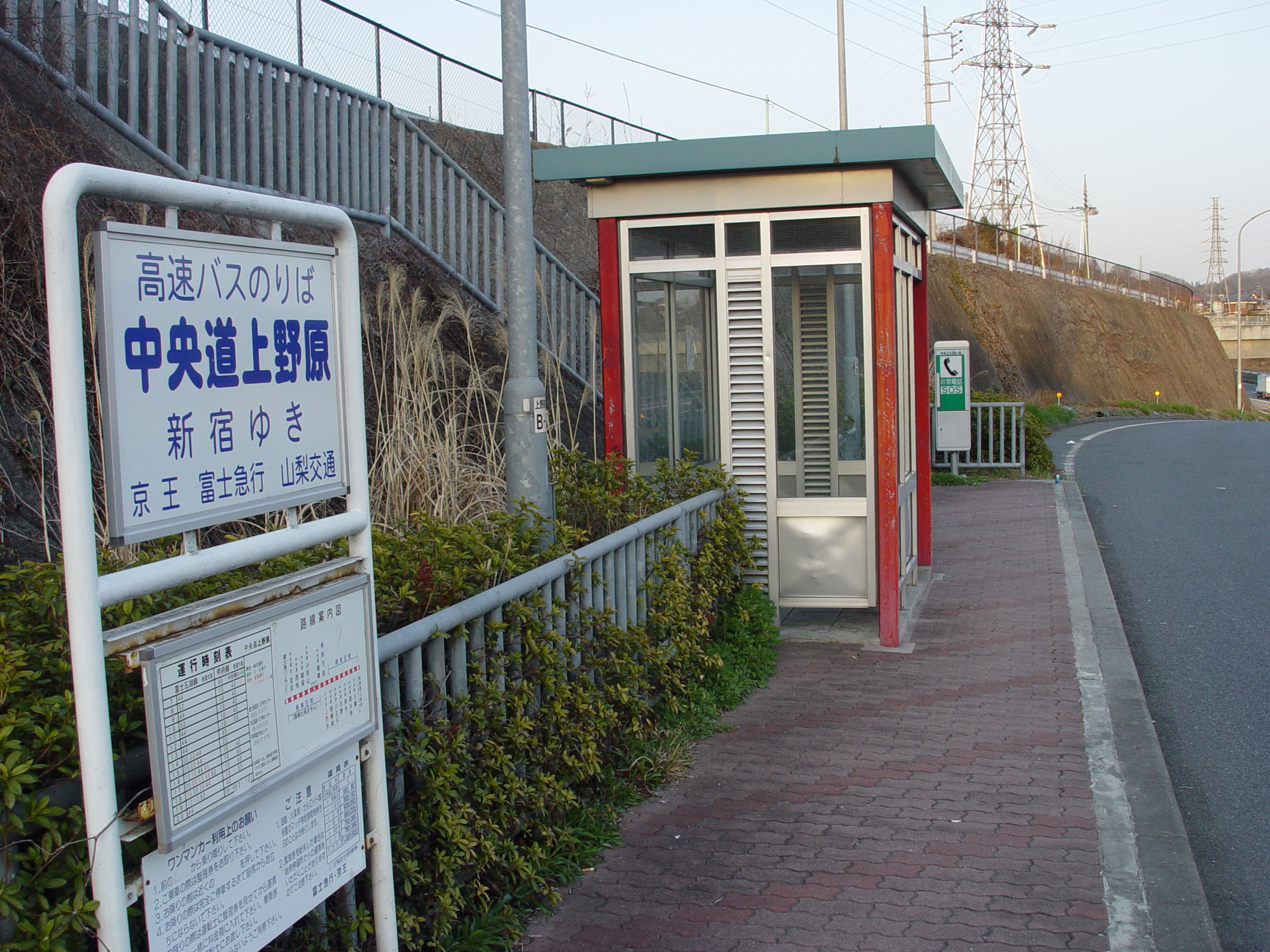 Chuodo Uenohara Bus Stop on the Chuo Expressway